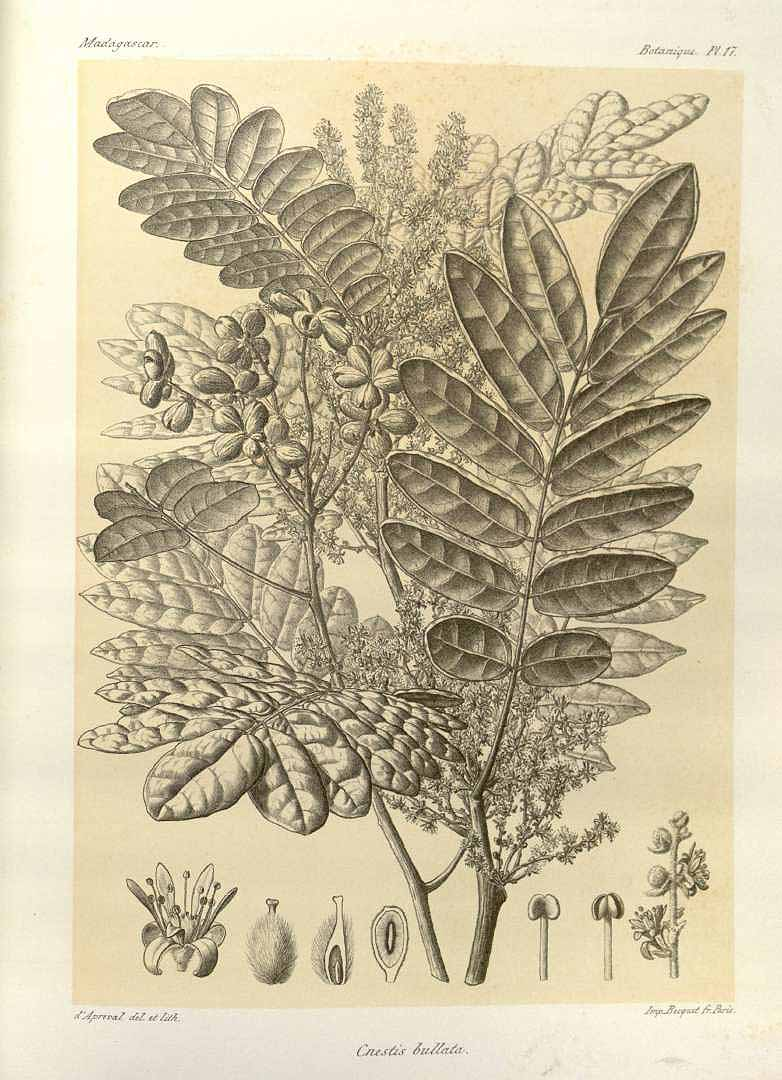 Cnestis polyphylla Lam. as Cnestis bullata Baillon - Grandidier, A., Histoire physique, naturelle et politique de Madagascar, Atlas, vol. 1: t. 17 (1882) [d’Apreval]